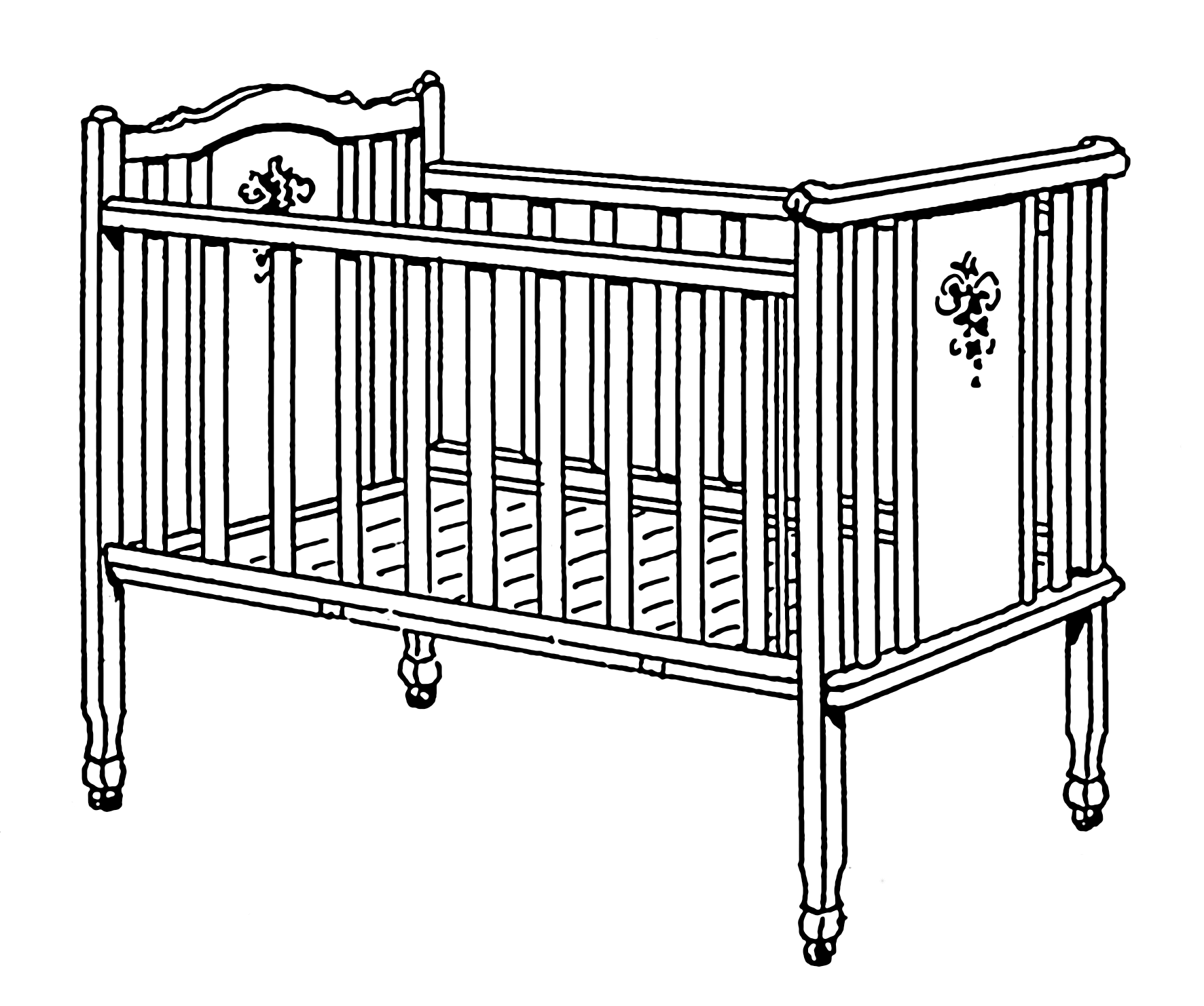 Line art drawing of a crib.